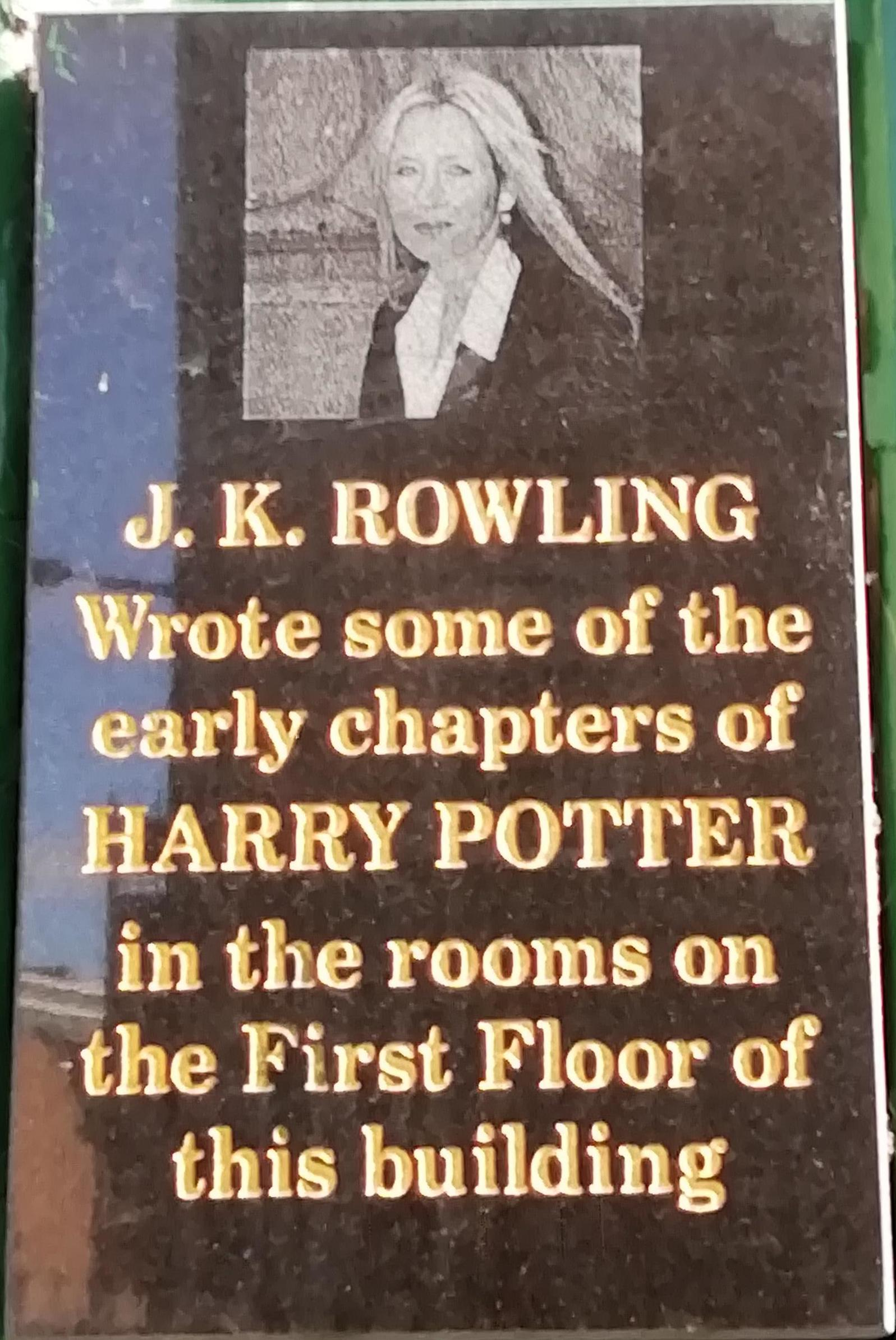 The J.K.Rowling plaque on the corner of the former Nicholson's Cafe (now named Spoon) is at 6A Nicolson St, Edinburgh. The cafe is on the 1st floor and is where J.K.Rowling sat at a table in the window and wrote the first few chapters of Harry Potter and the Philosopher's Stone.